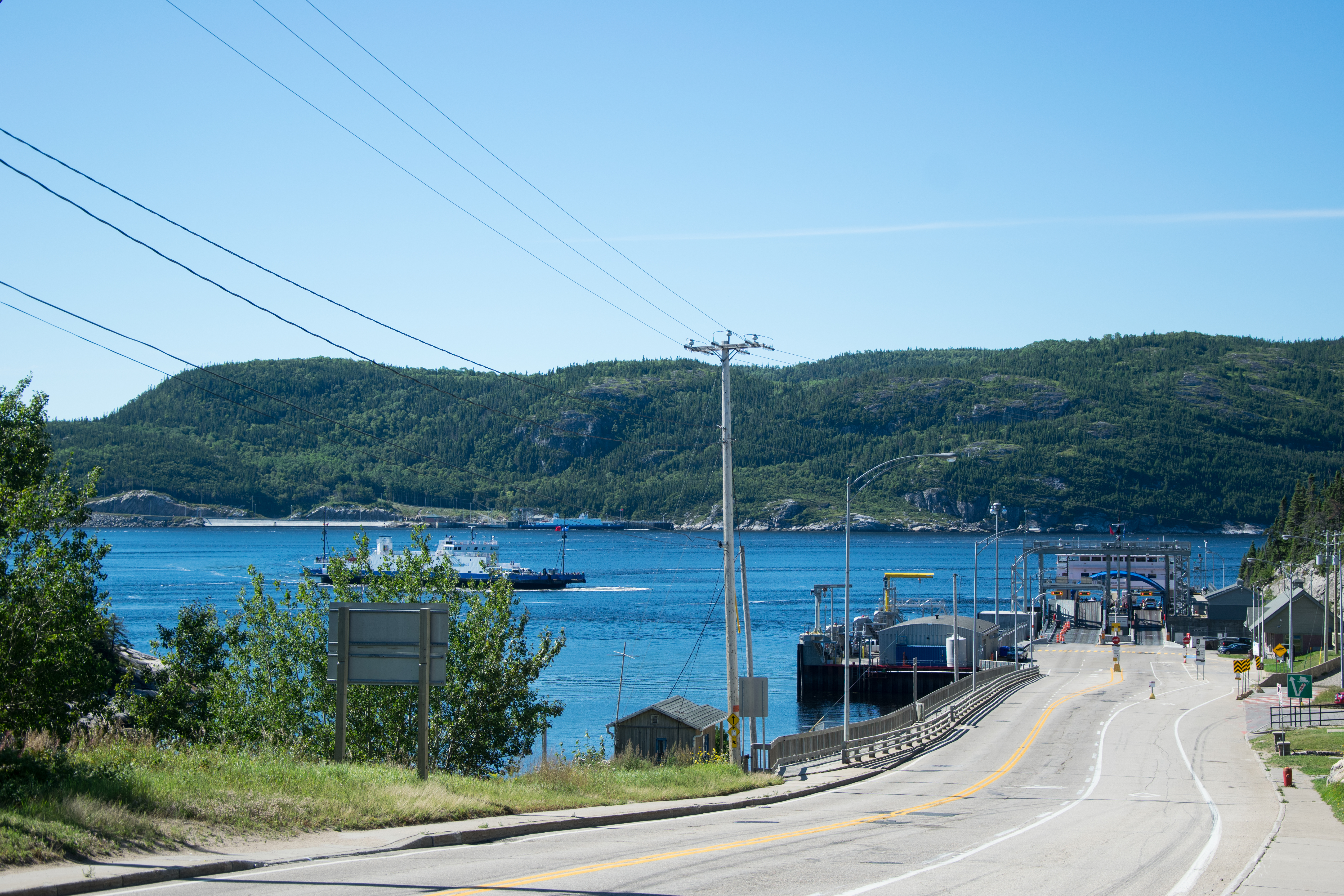 The road to access the ferry crossing the Saguenay River next to the town of Tadoussac and it's mouth at the Saint Lawrence River (Quebec, Canada).